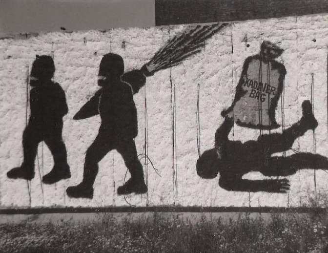 Art-graffiti on the Berlin WallThe Harshness Of War